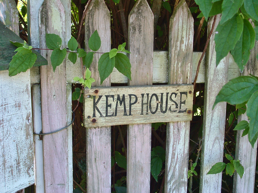 Kemp House at Kerikeri was the name of New Zealand's oldest wooden building for more than 160 years, until its name was changed to Mission House in the 1990s. The old sign still remains but is deteriorating in the weather.